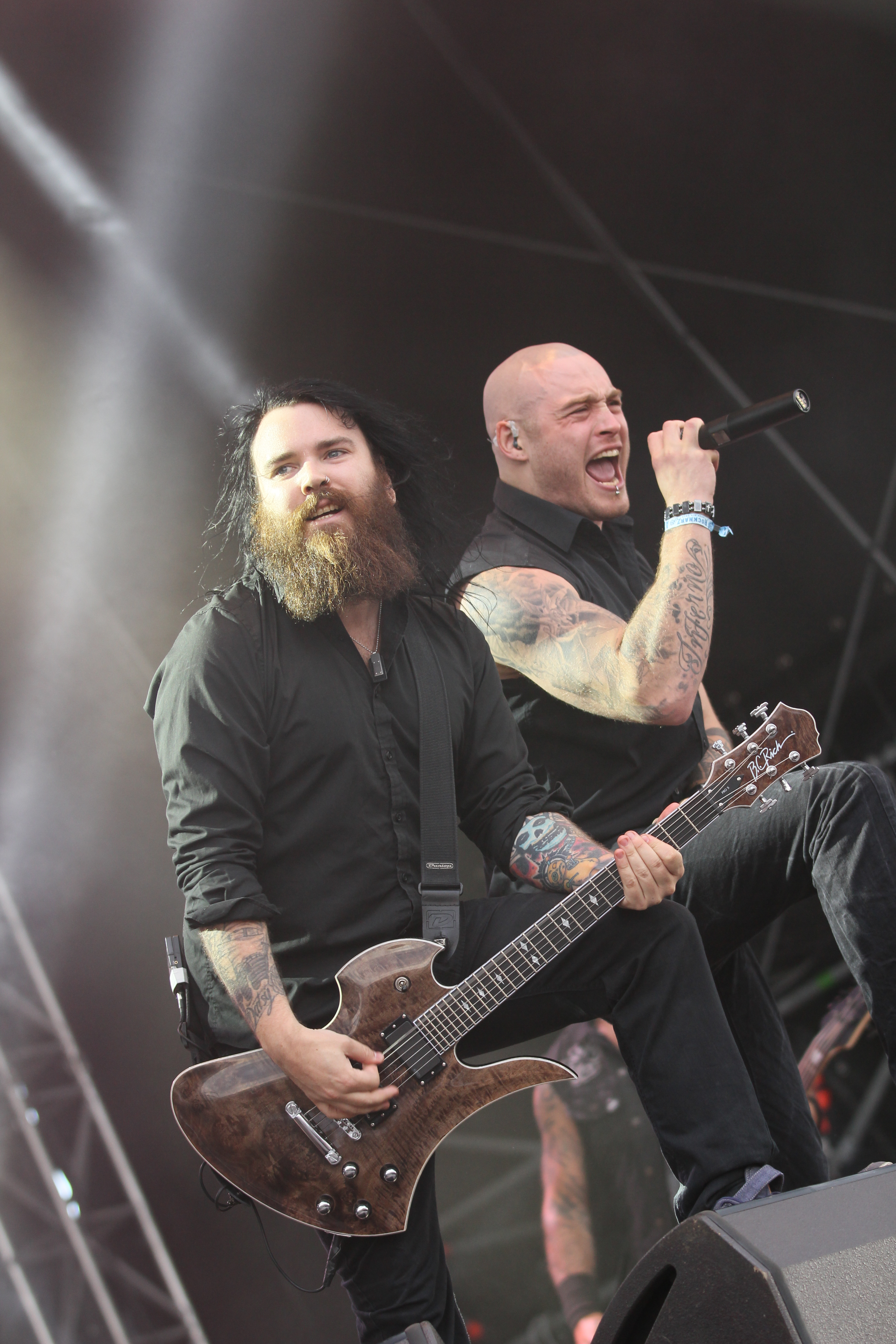 The Swedish metalcore band Sonic Syndicate at the Rockharz Open Air 2014 in Ballenstedt/Germany